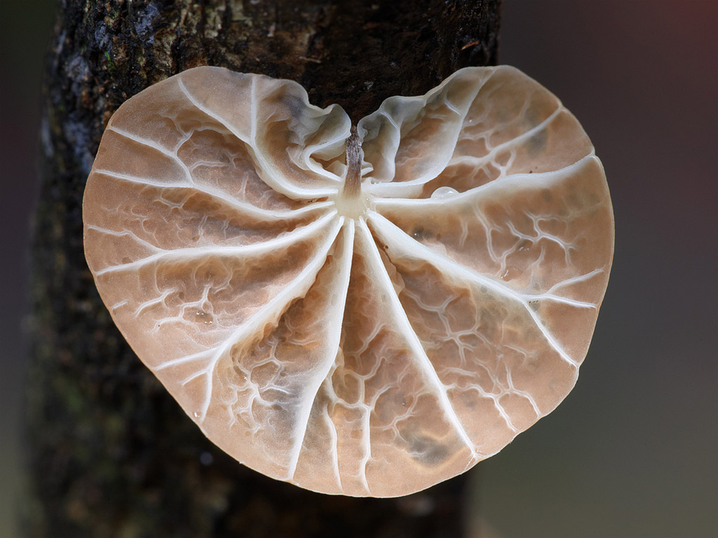 A member of the fungal genus Campanella, not identified to species. Specimen photographed in Booyong Reserve, NE NSW, Australia.